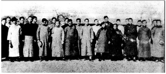 Society for Research in Marxism, Peking University, 1921